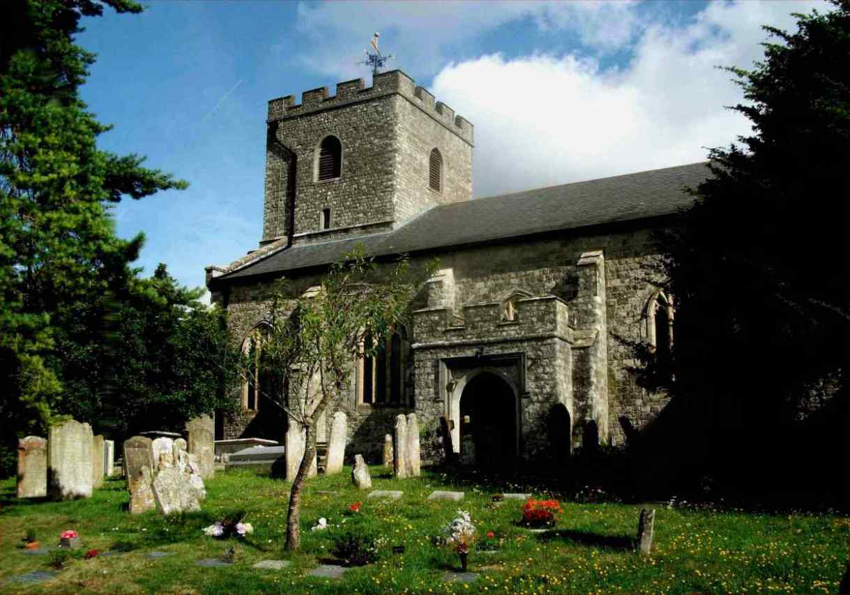 St Mary's parish church, Sutton Valence, Kent